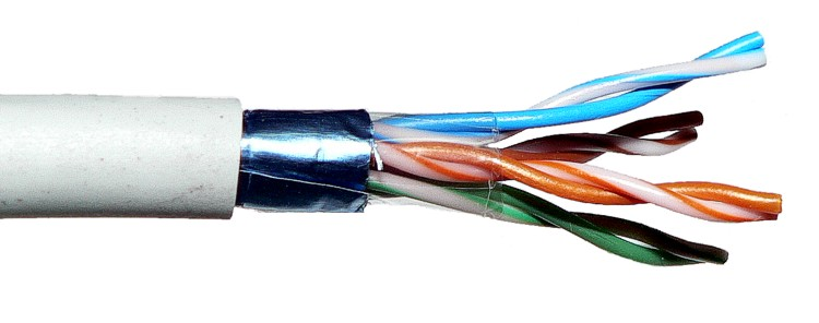 A stripped foiled twisted-pair (FTP) cable